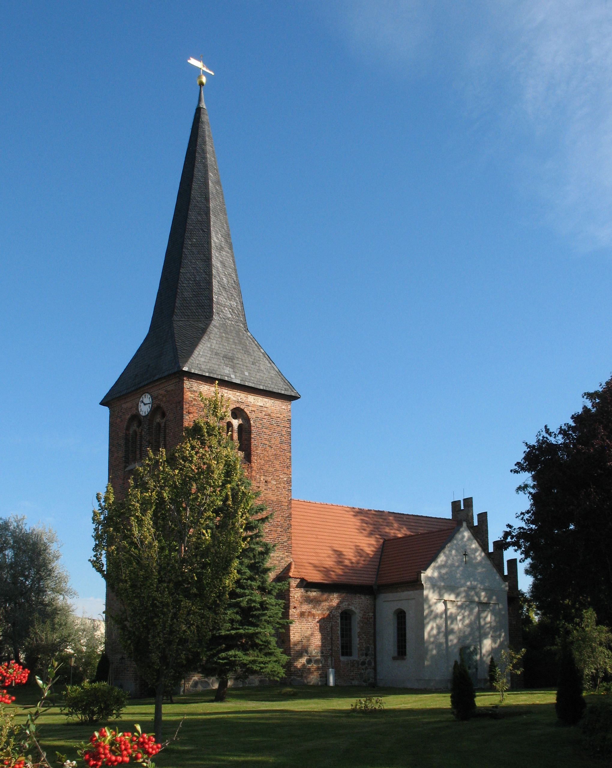 Church in Kremmen-Flatow in Brandenburg, Germany